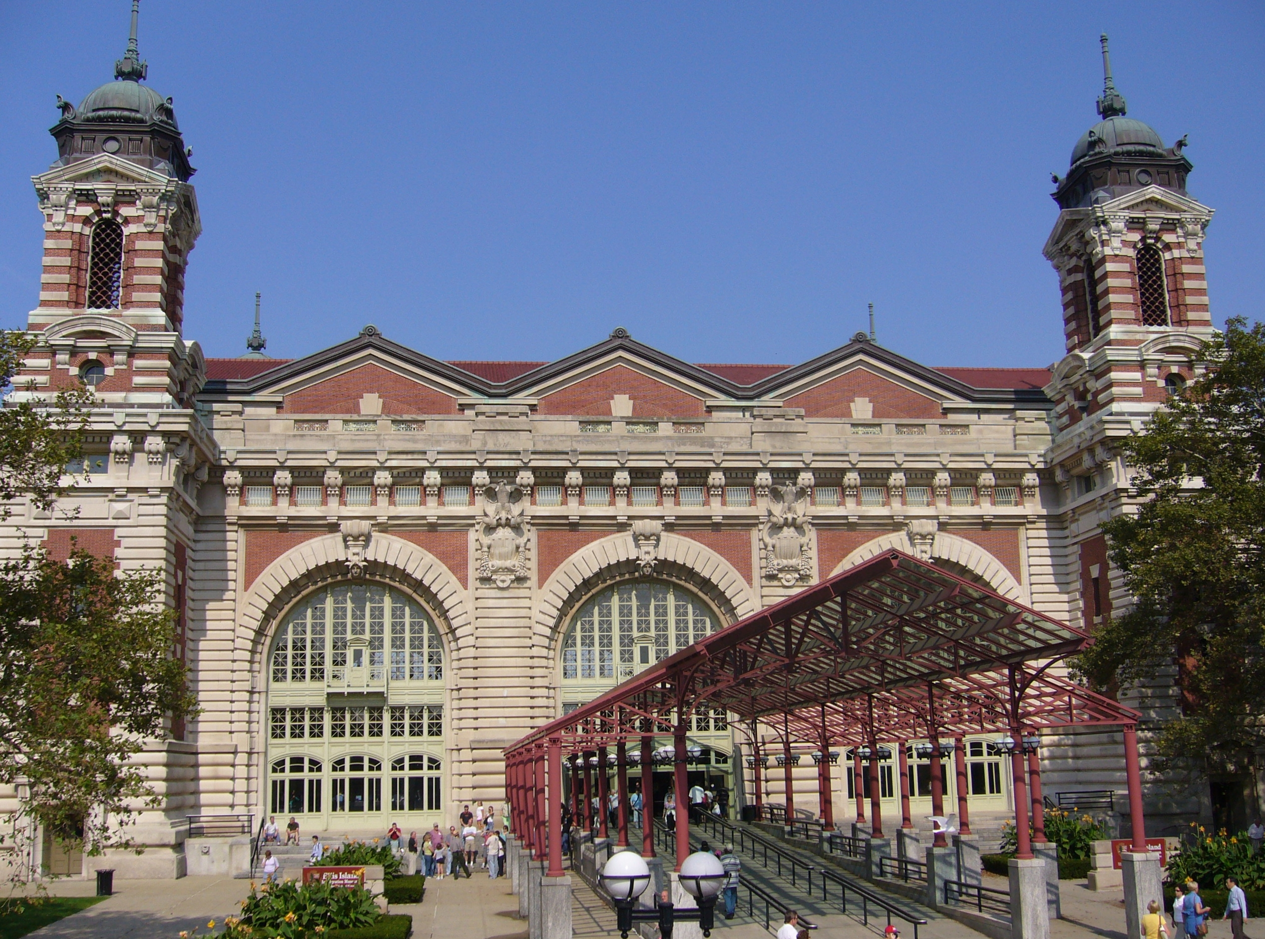 Entrance to Ellis Island Museum.